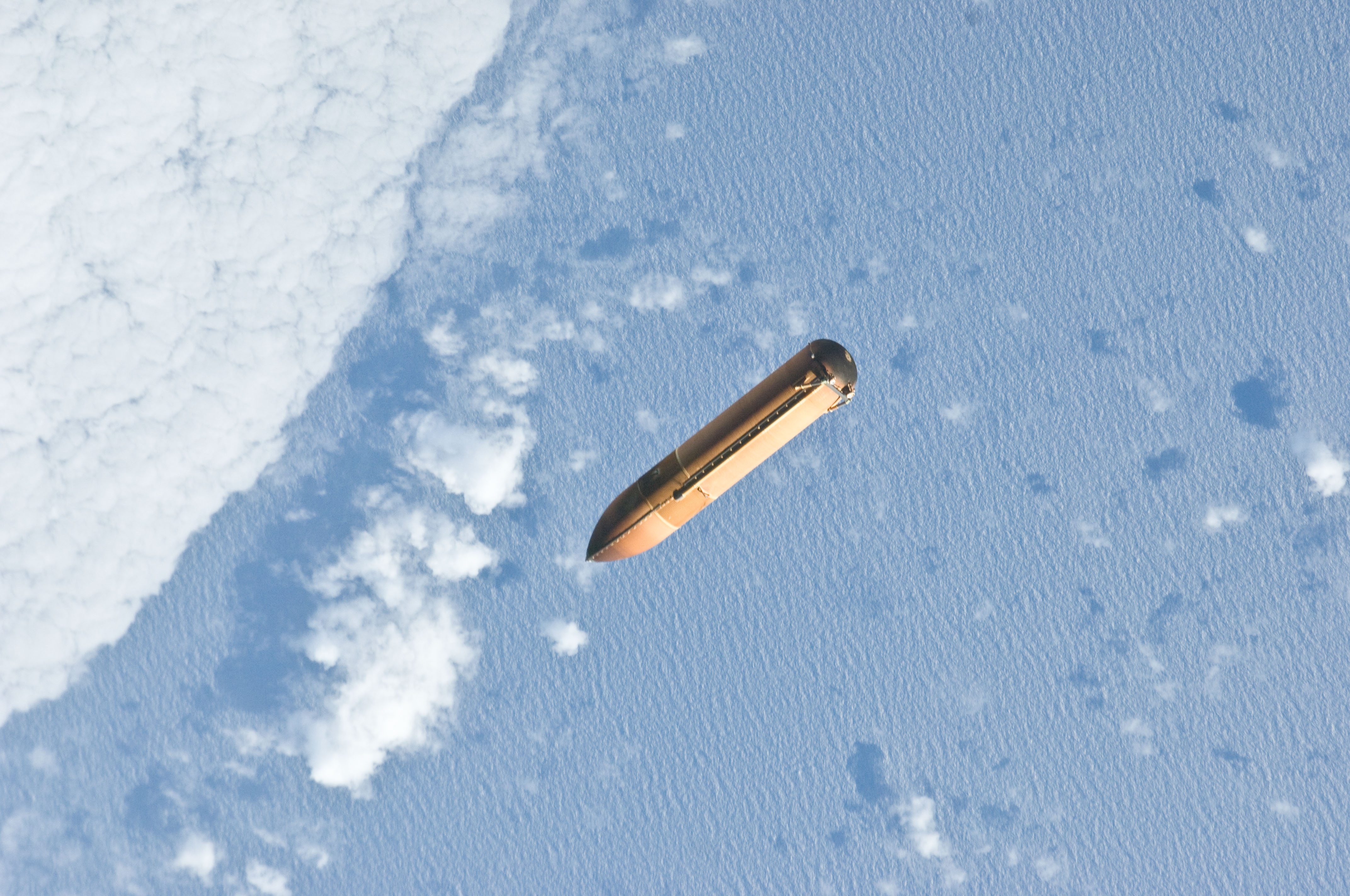 The STS-135 external fuel tank is seen during its release from space shuttle Atlantis in space following the successful launch on July 8, 2011. An STS-135 crew member using a hand-held still camera exposed the image.